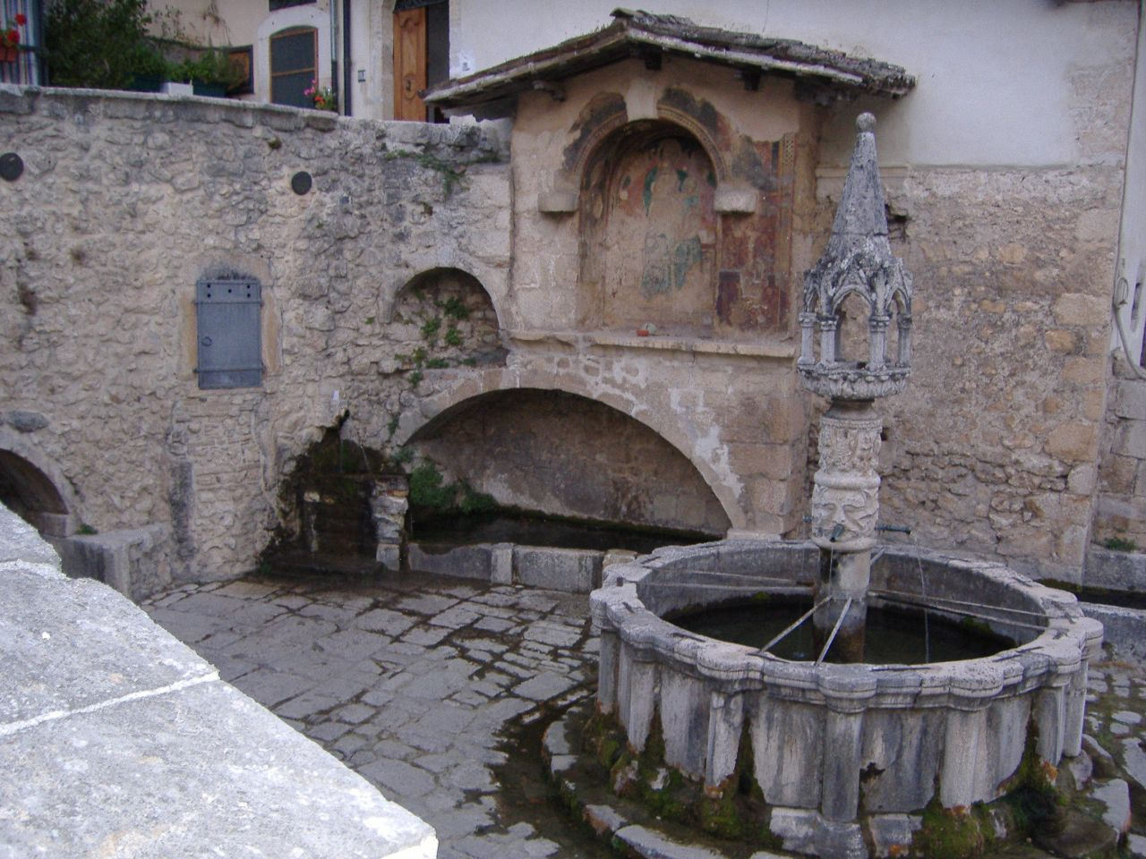 There's this cool fountain in the village square.